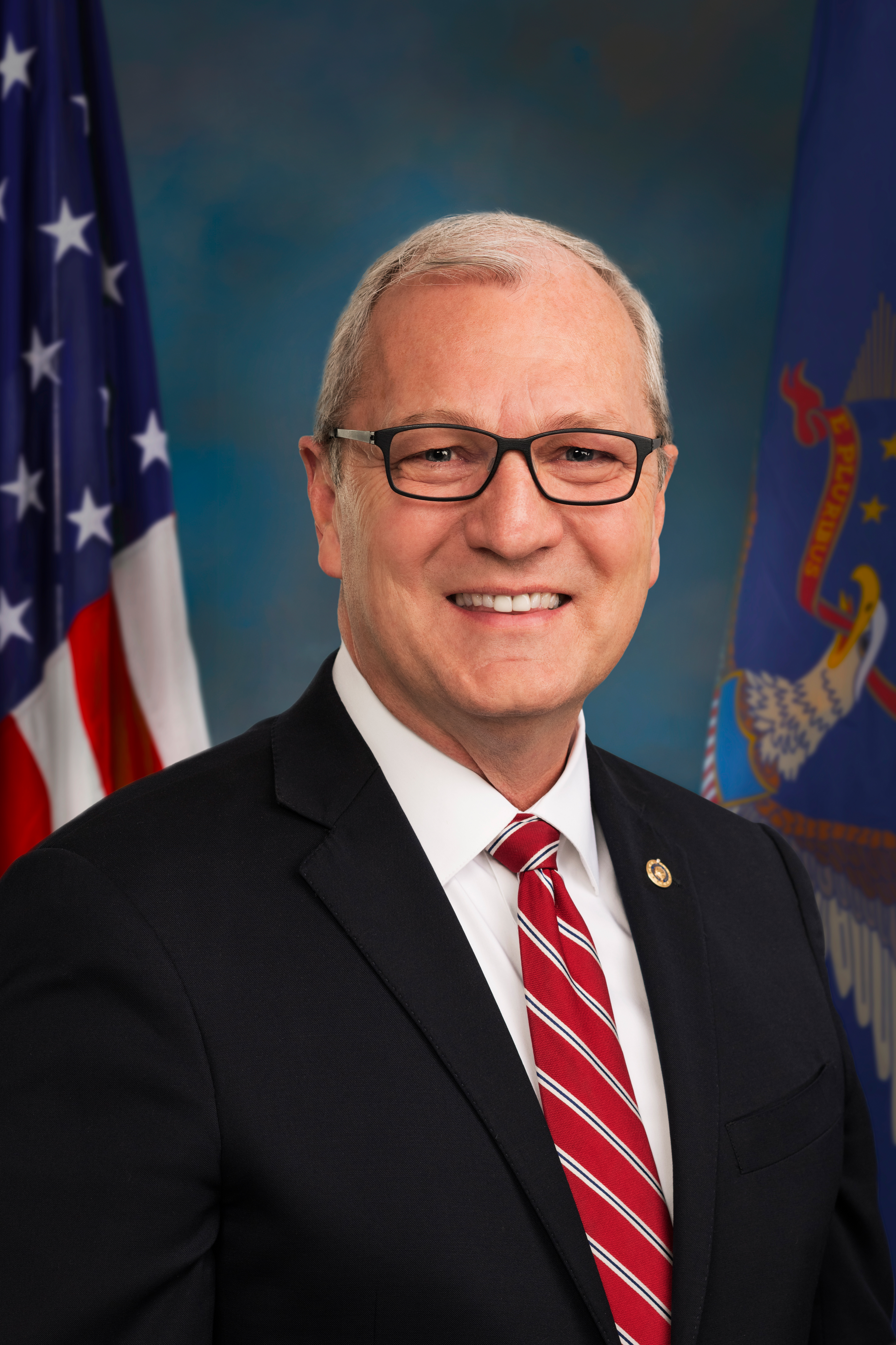 U.S. Senator Kevin Cramer (R-ND)